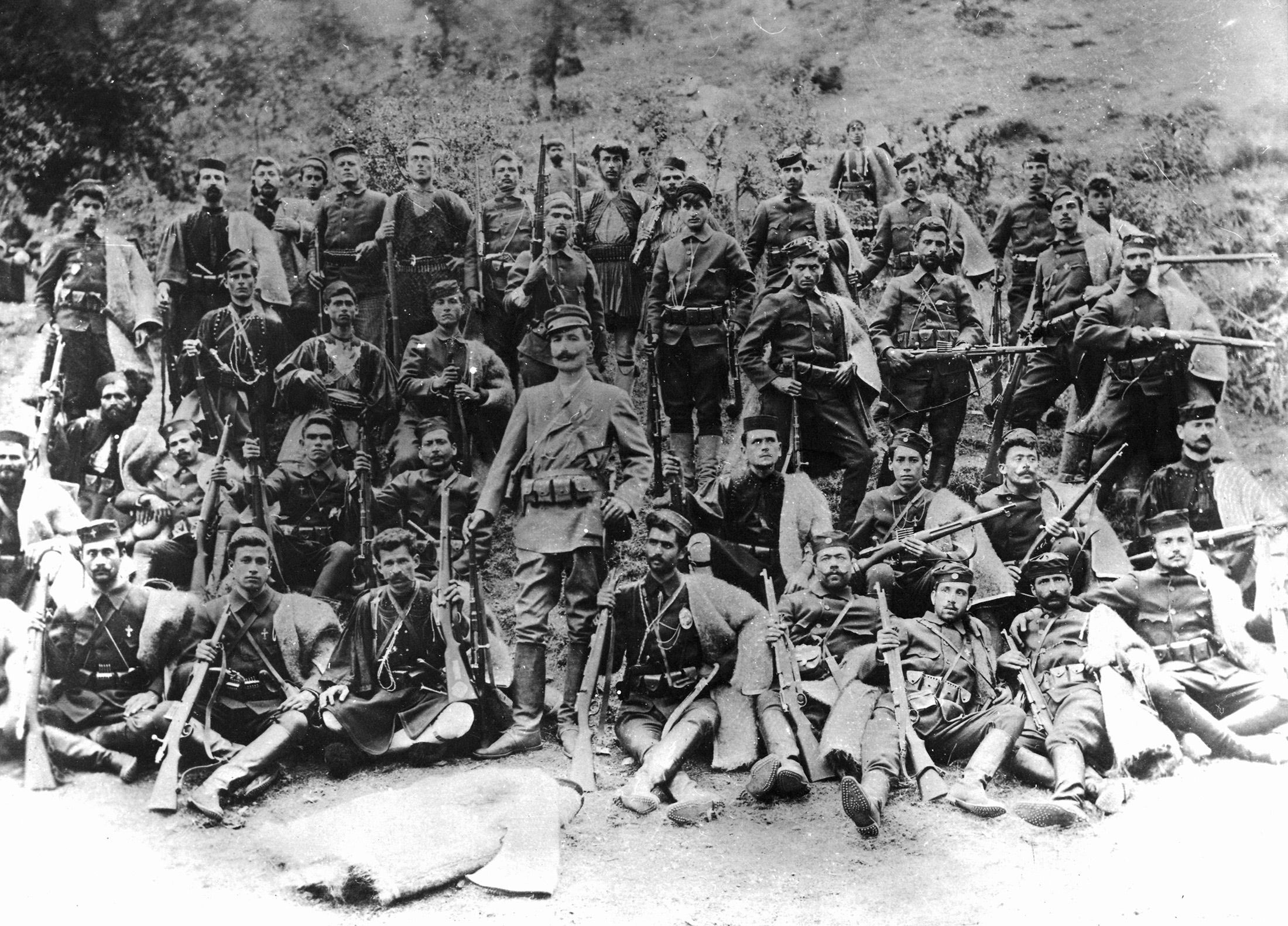 Nikolaos Tsotakos